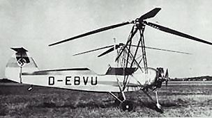 Focke-Wulf FW 61, the first fully controllable helicopter